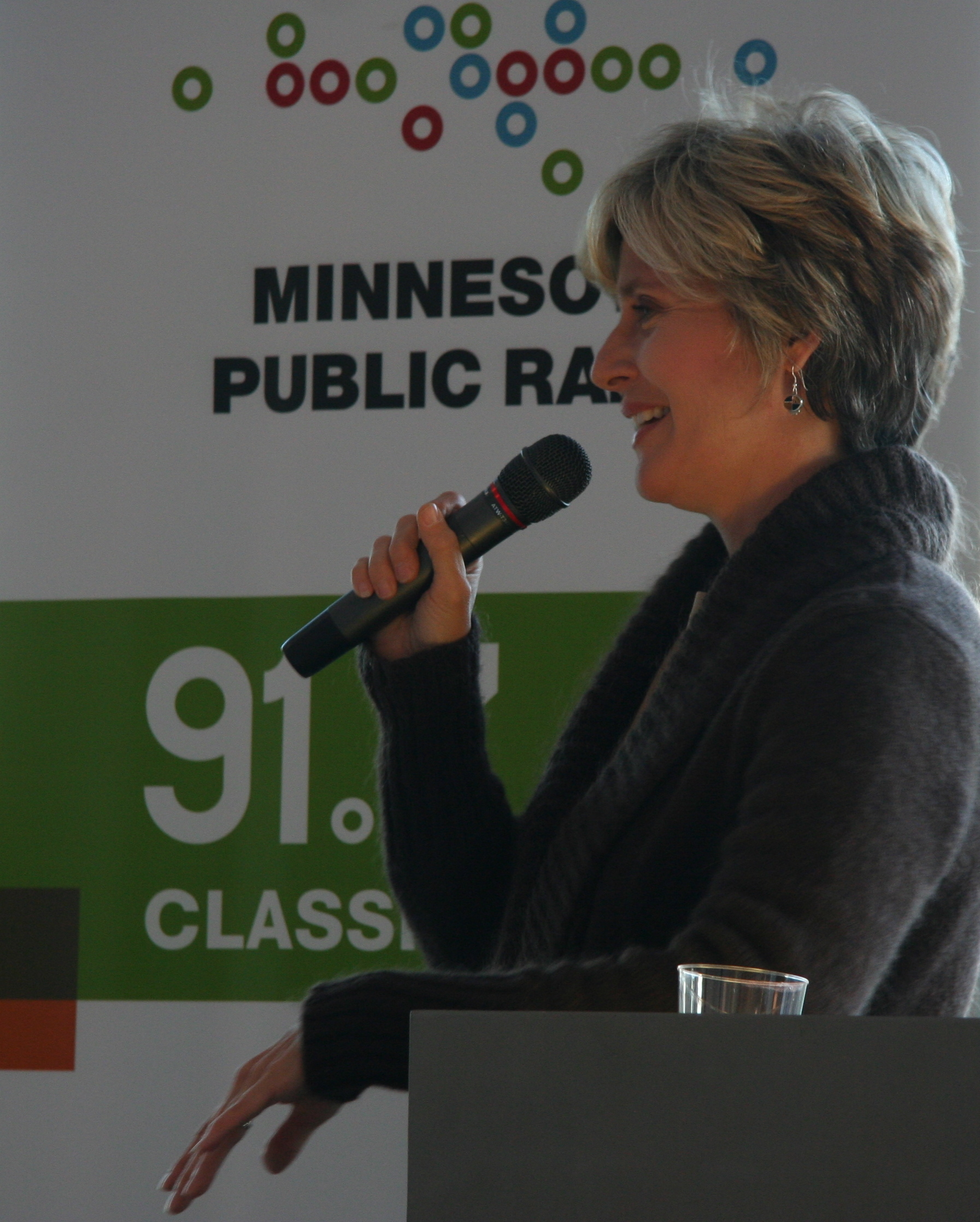 Cathy Wurzer speaking at the Rochester Art Center in Rochester, Minnesota